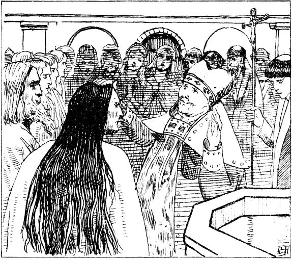 «Queen Gunnhild is baptized by an English bishop.»